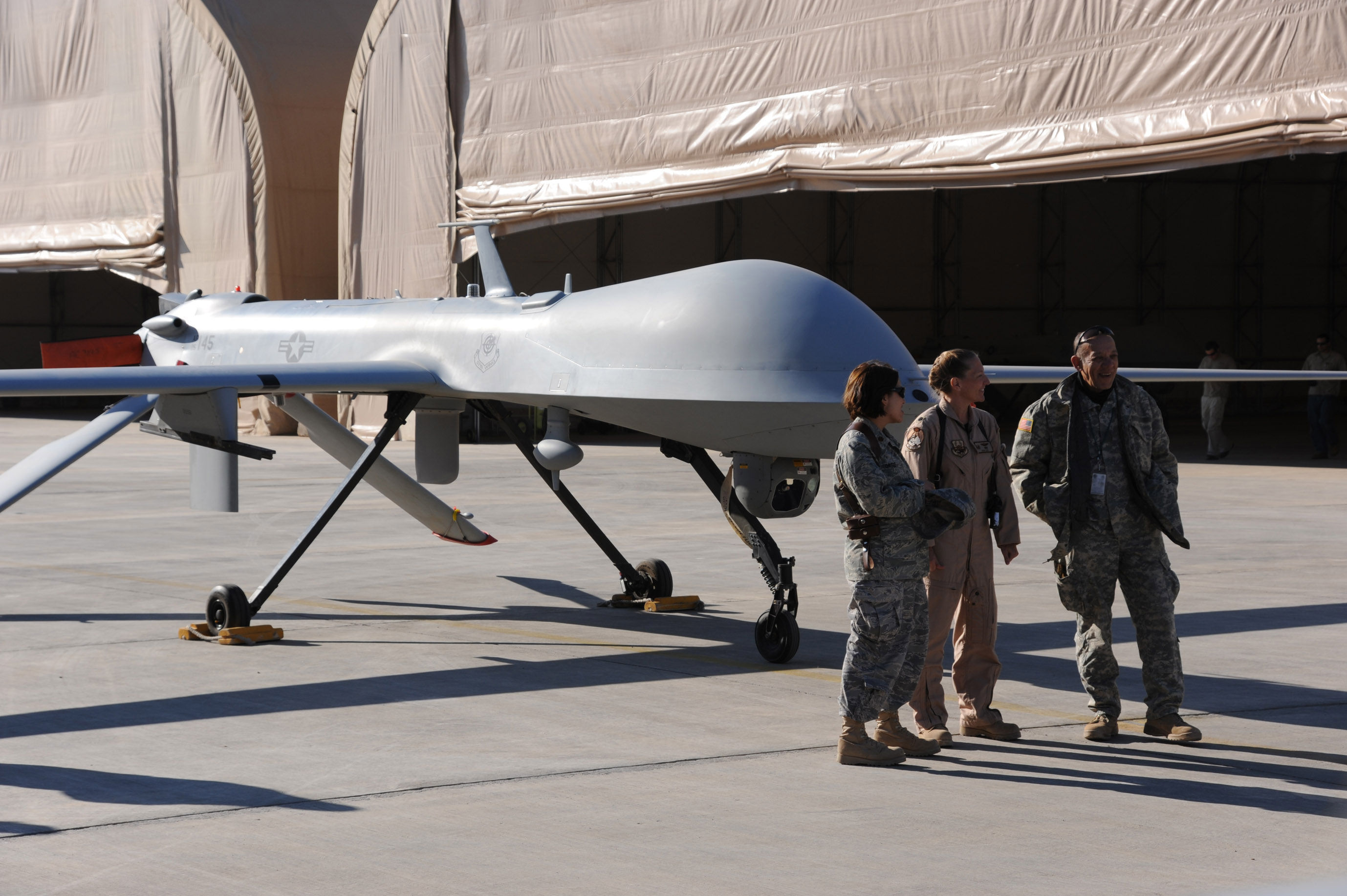 Lt. Col. Debra Lee, center, explains how the MQ-1 Predator aircraft works during a media orientation tour at Joint Base Balad. She serves as the 46th Expeditionary Reconnaissance and Attack Squadron commander, and is deployed to Iraq from Creech Air Force Base, Nv. The MQ-1 Predator is a medium-altitude, long-endurance, unmanned aircraft system; the Predator's primary mission is interdiction and conducting armed reconnaissance against critical, perishable targets. (U.S. Air Force photo/Maj. Stan Paregien)